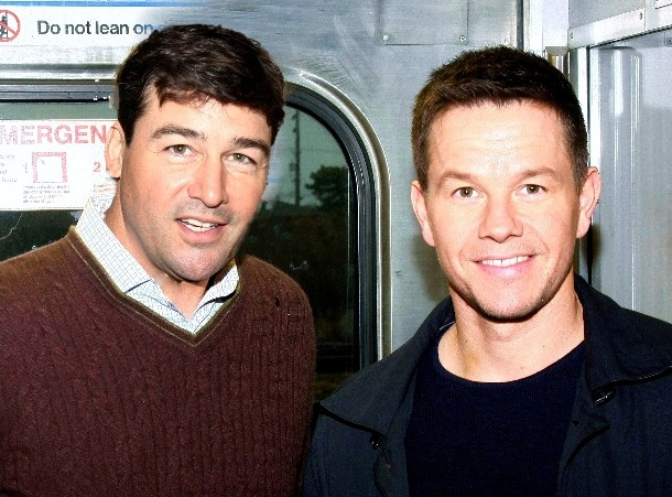 Kyle Chandler and Mark Wahlberg on the set of Broken City in New York last November 17, 2011.